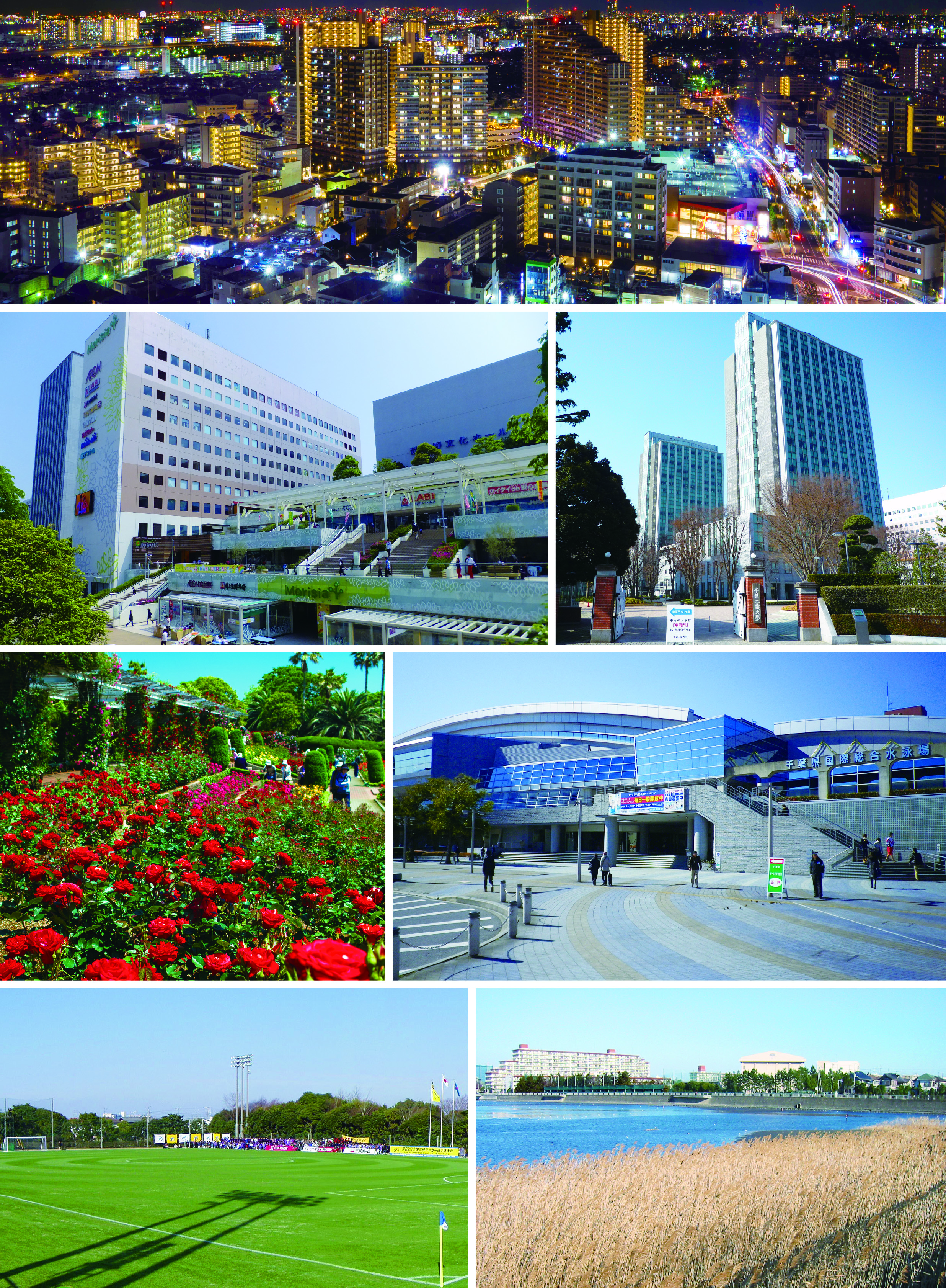 Narashino montage.jpg